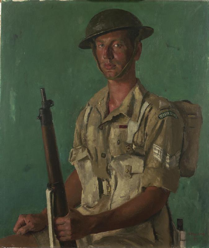 Sergeant J P Kenneally, Vc - 1 Battalion, Irish Guards image: a half-length, seated portrait of Sergeant J P Kenneally, holding a rifle and wearing a tin helmet.